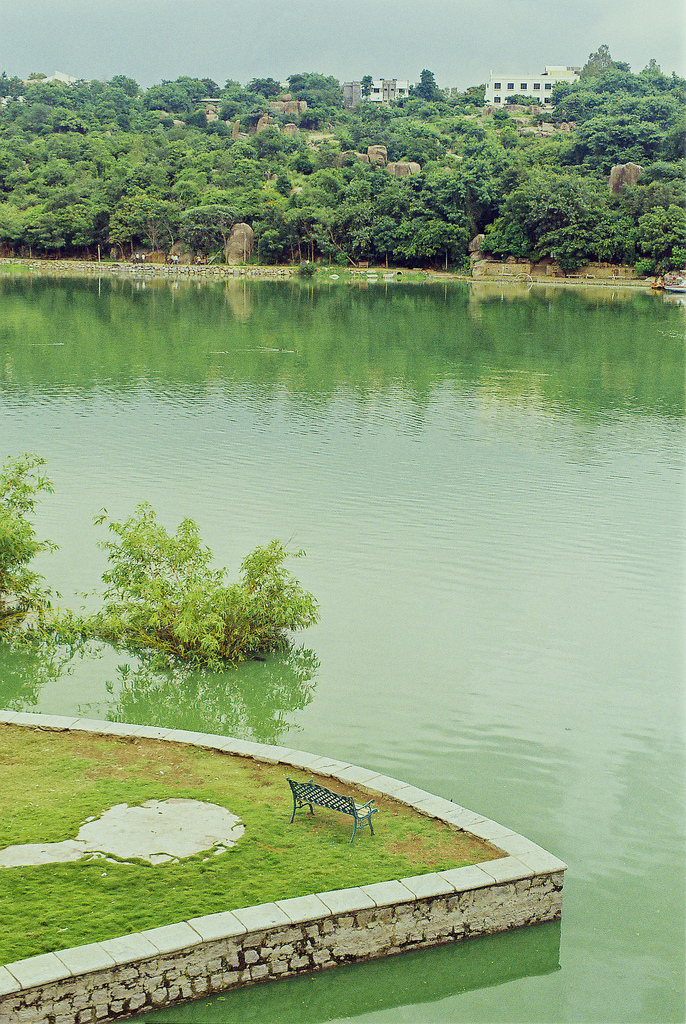 A view of Durgam Cheruvu